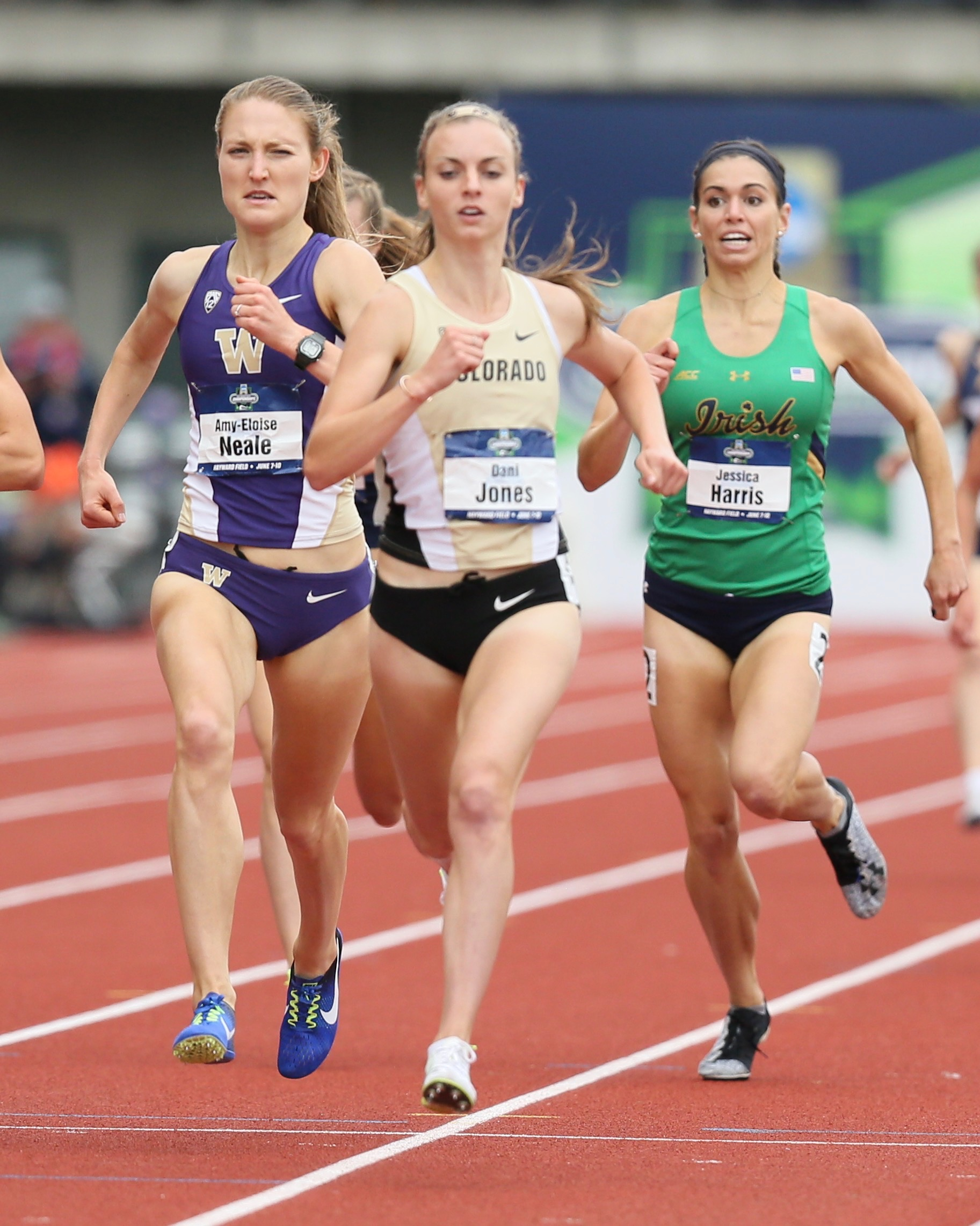 Amy Eloise-Neale, Dani Jones, and Jessica Harris at the 2017 NCAA DI outdoor track and field championships